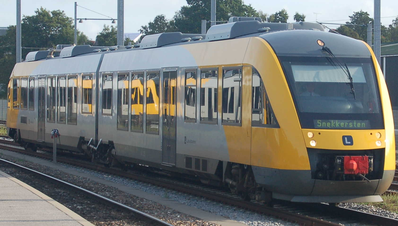 Lokalbanen diesel multiple unit in Hillerød